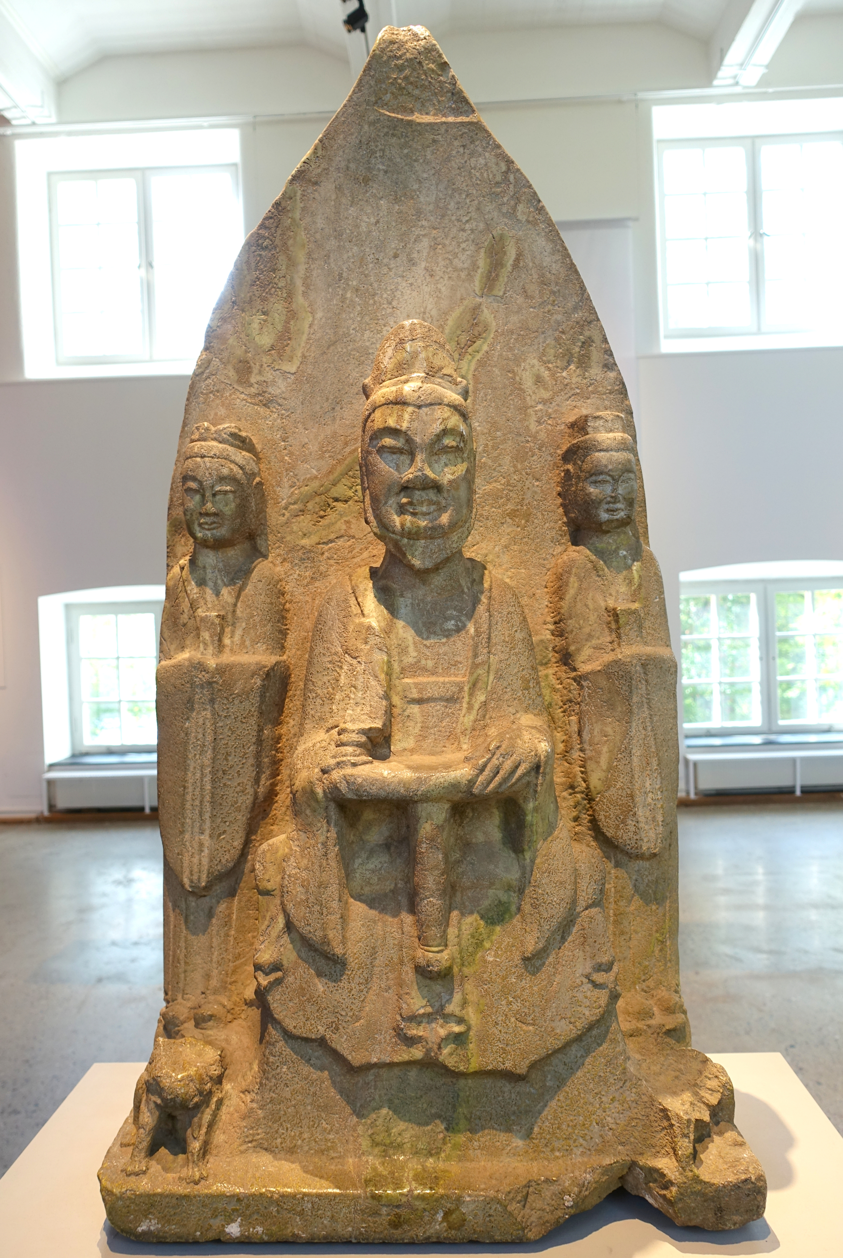 Exhibit in the Östasiatiska museet, Stockholm, Sweden. This artwork is old enough so that it is in the public domain.